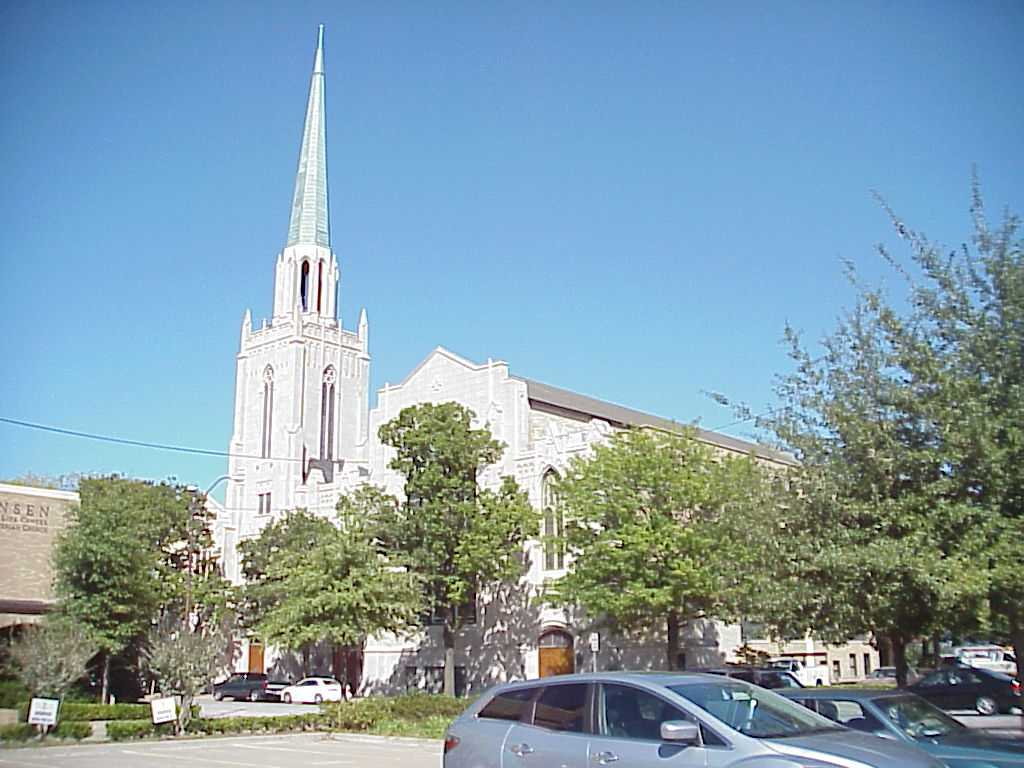 First Presbyterian Church, 709 S Boston, Tulsa, Ok. Built in 1925.